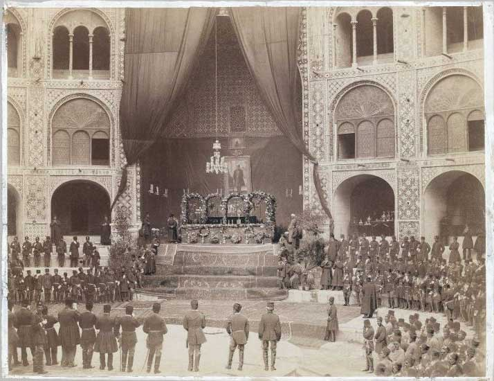 Naser al-Din Shah Qajar's Funeral at Tekyeh Dowlat, Tehran, Iran, May 1896